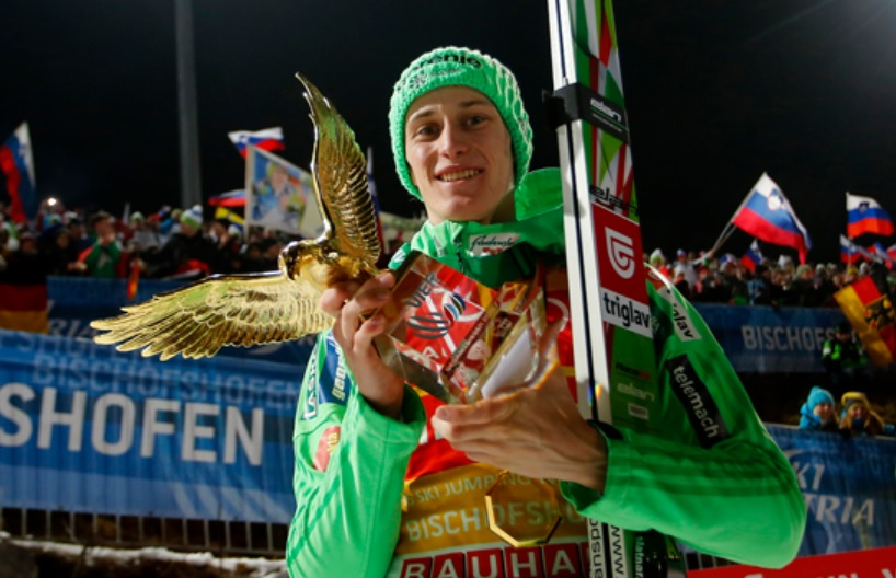 Prevc